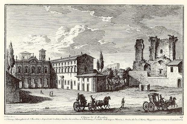 1) Chiesa e Monasterio di S. Eusebio; 2) Derelict aqueducts (Aqua Iulia); 3) Street leading to S. Bibiana; 4) Castello dell'Acqua Marcia (Trofei di Mario); 5) Street leading from S. Maria Maggiore to S. Croce in Gerusalemme.